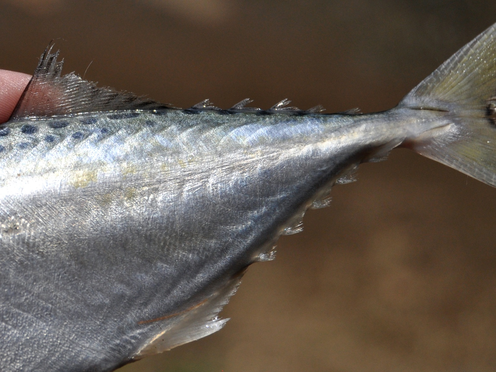 Indian mackerel Rastrelliger kanagurta from Jakarta, Indonesia. FL 185 mm. Anal to caudal region.